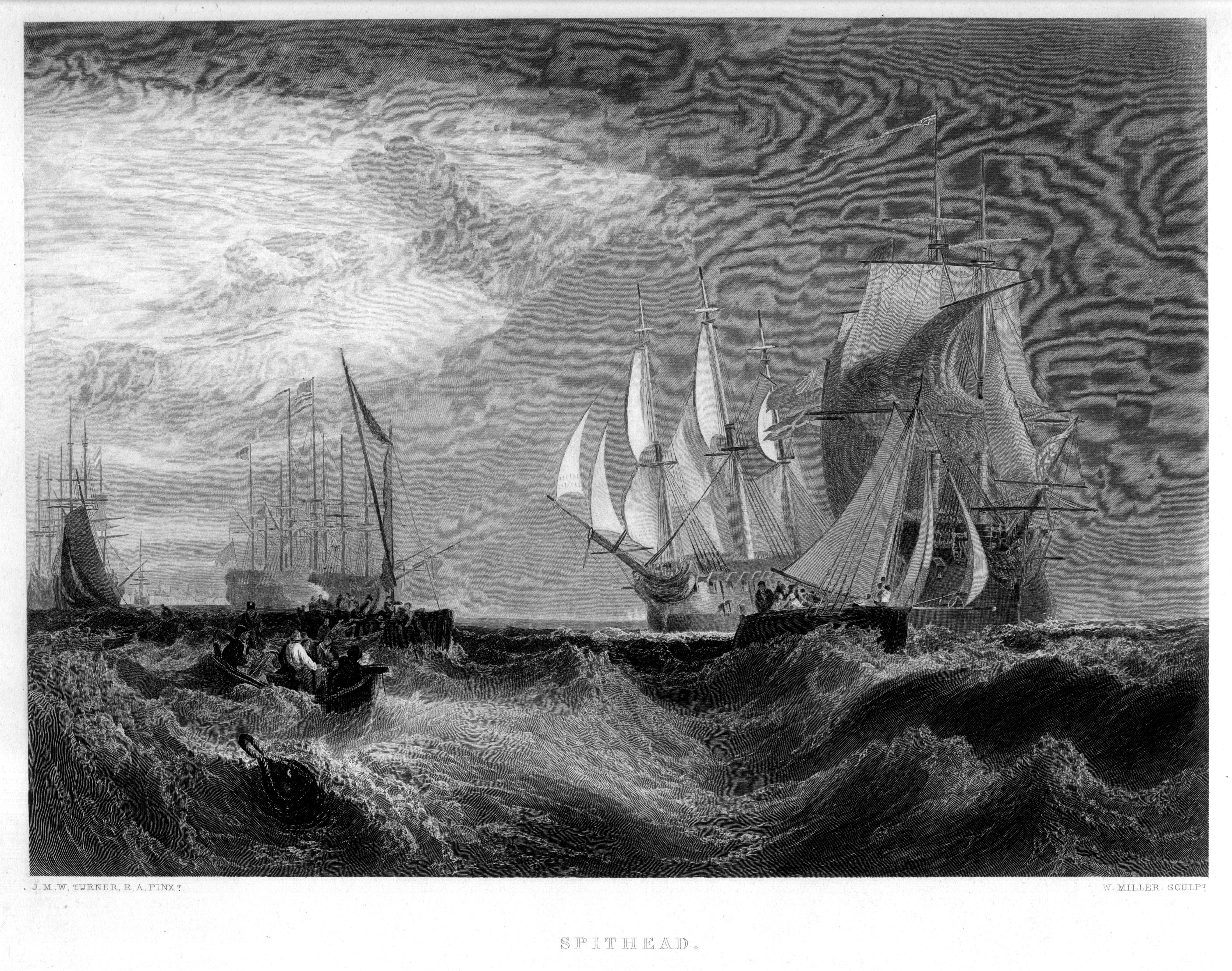 Spithead (Rawlinson 699) engraving by William Miller after J M W Turner, published in The Turner Gallery. A series of One Hundred and Twenty Engravings from the works of J.M.W. Turner. The Descriptive Text by W. Cosmo Monkhouse. Virtue and Co, London